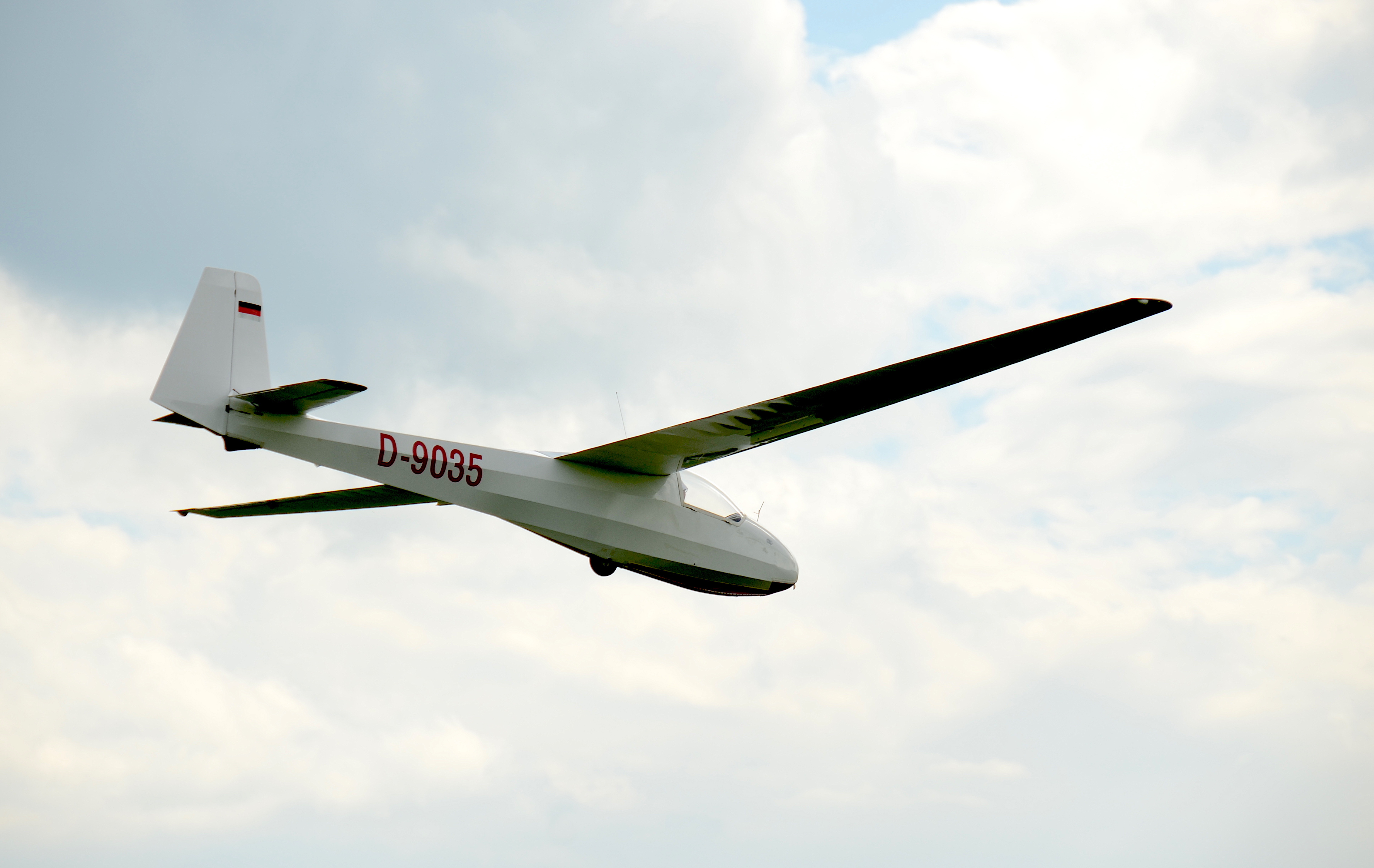 Schleicher K 8 D-9035 at Degerfeld airfield